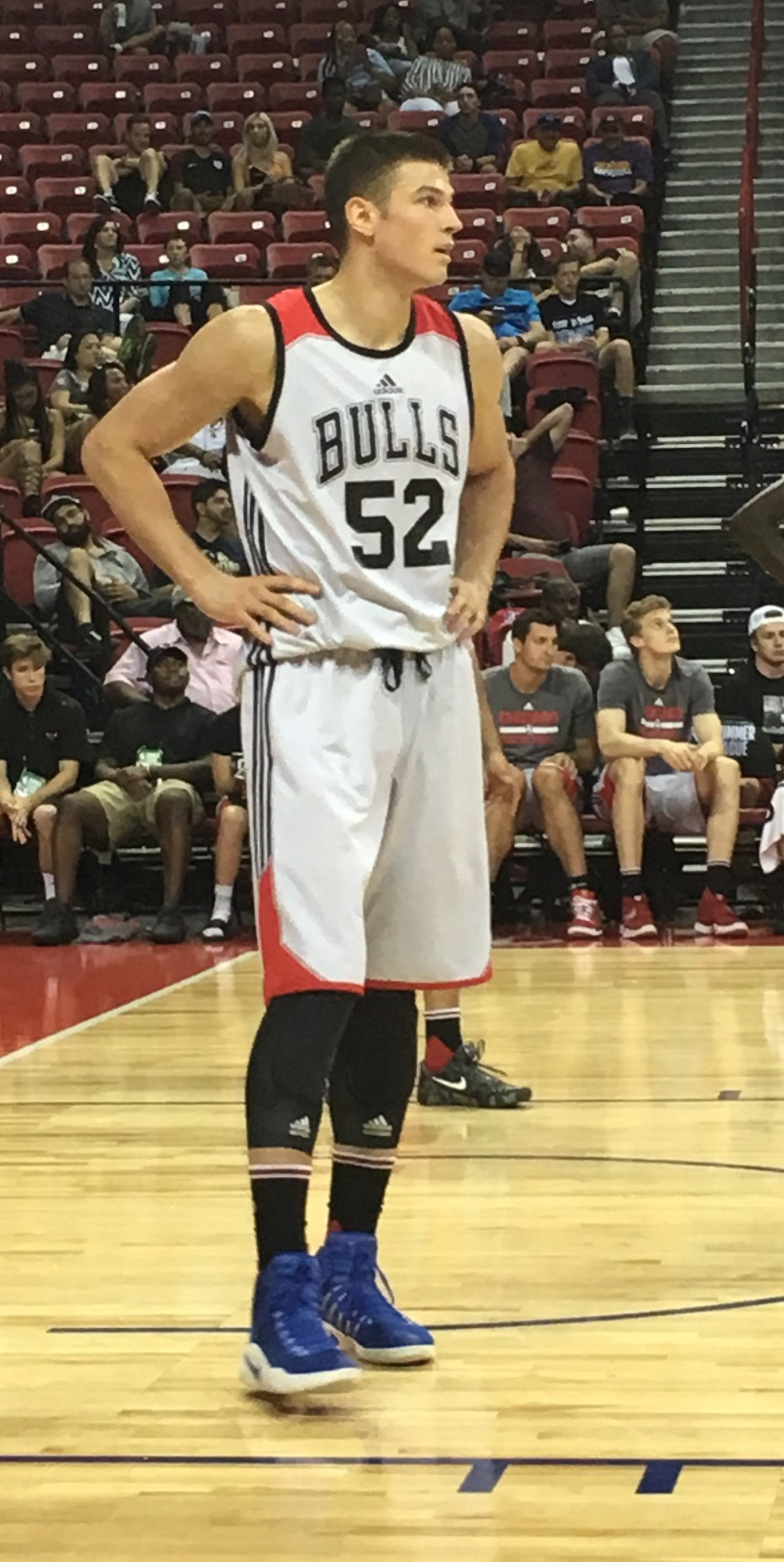 Nikola Jovanovich at NBA Summer league